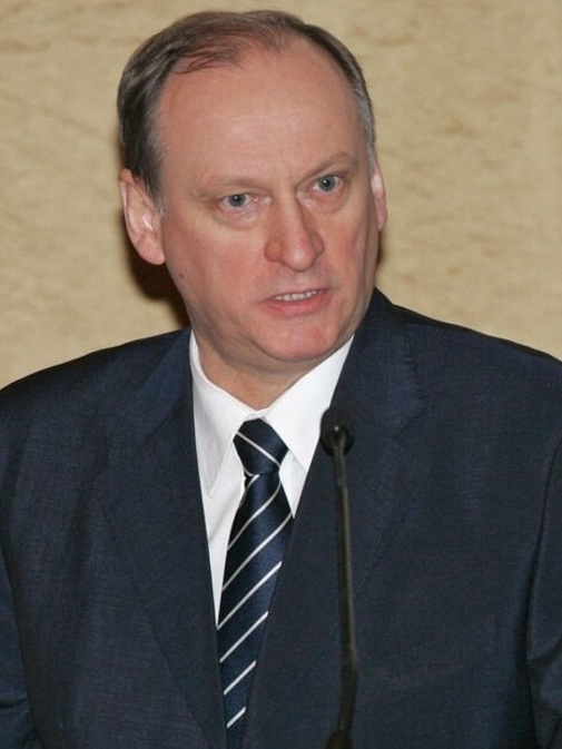 Nikolai Patrushev